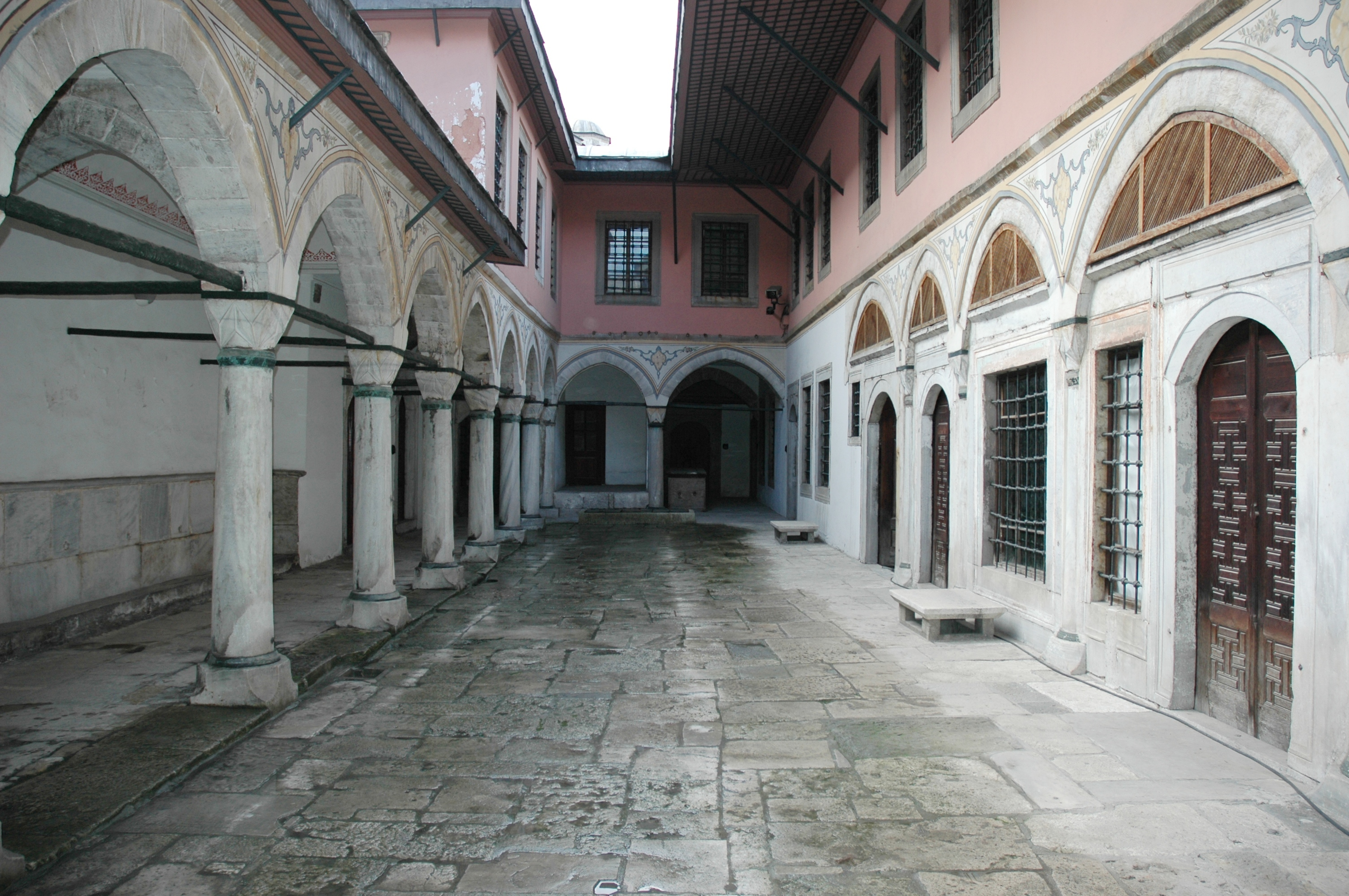 Concubine places